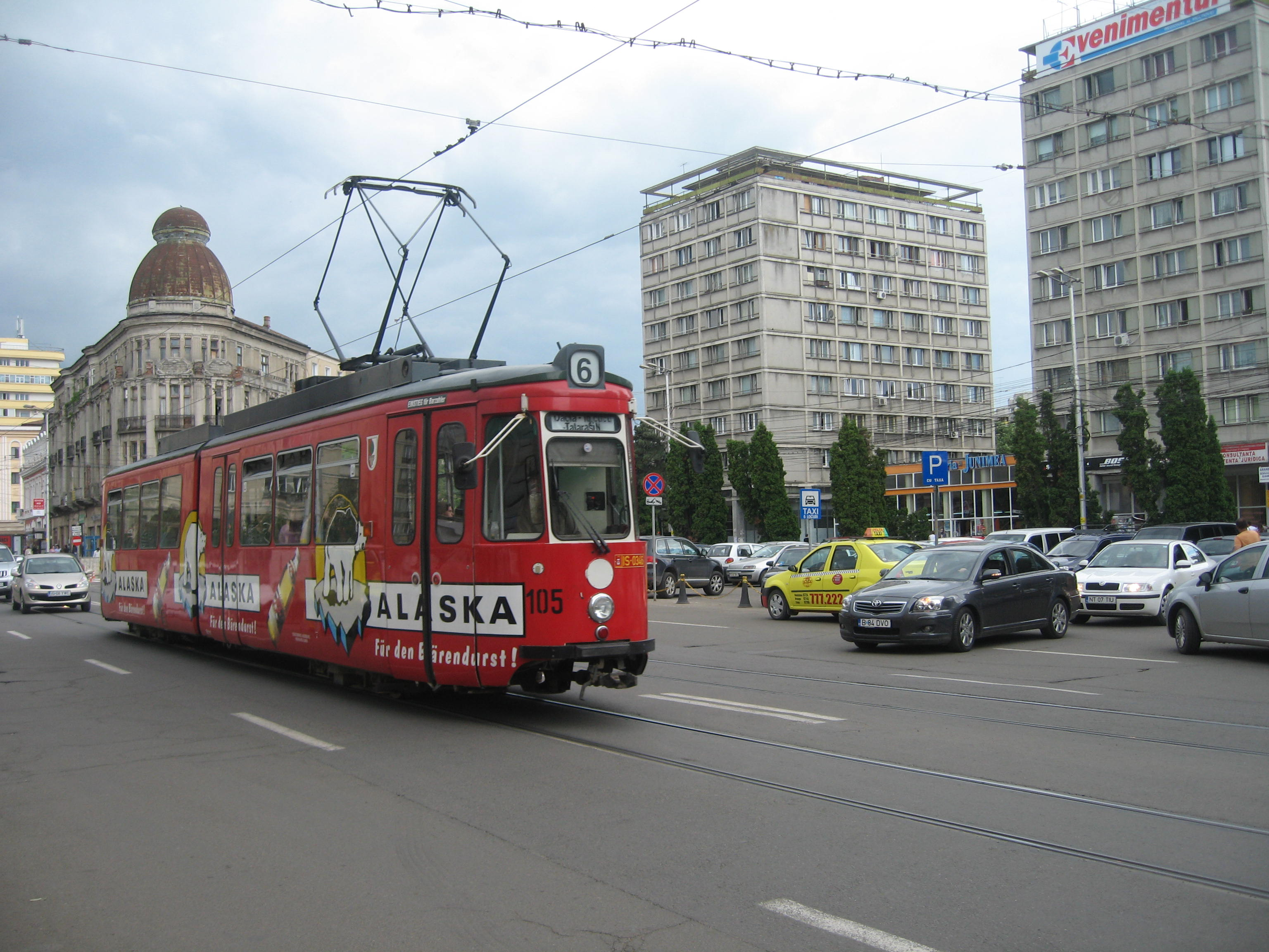 Tram in Iași